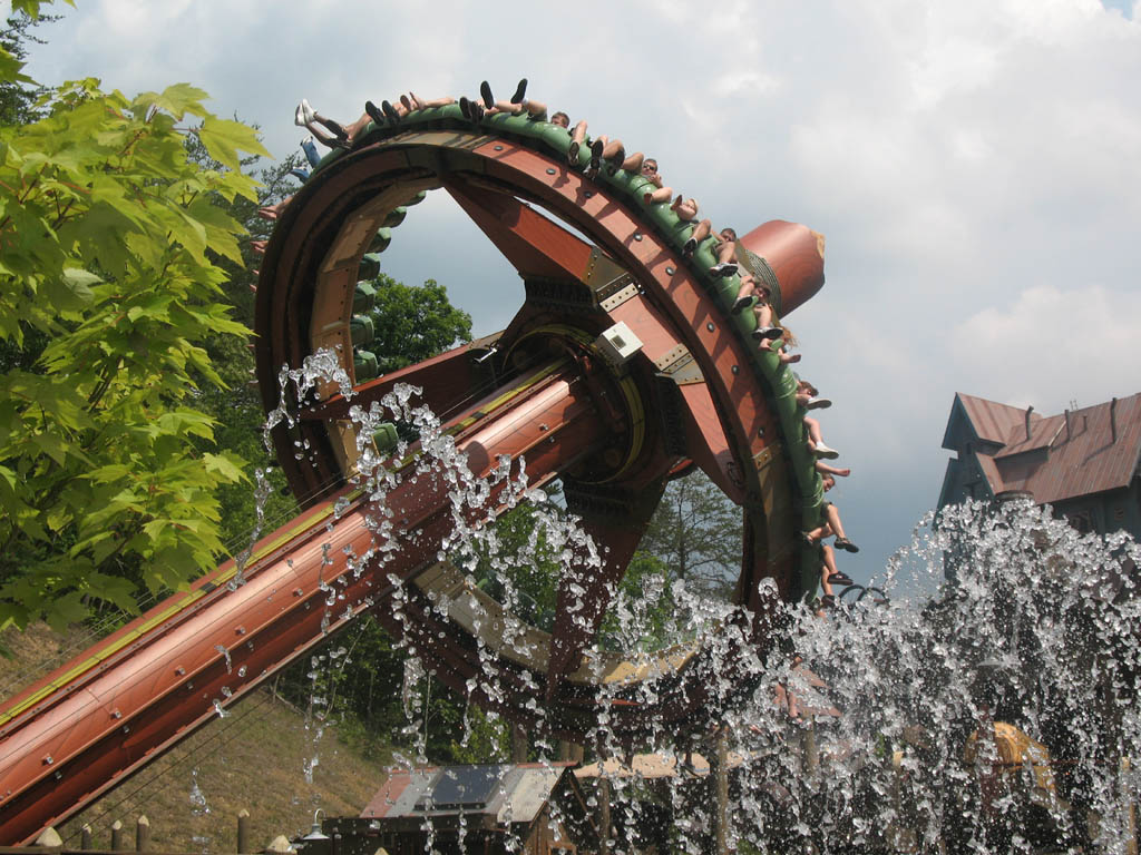 Timber Tower (Topple Tower) at Dollywood. Taken August 2007